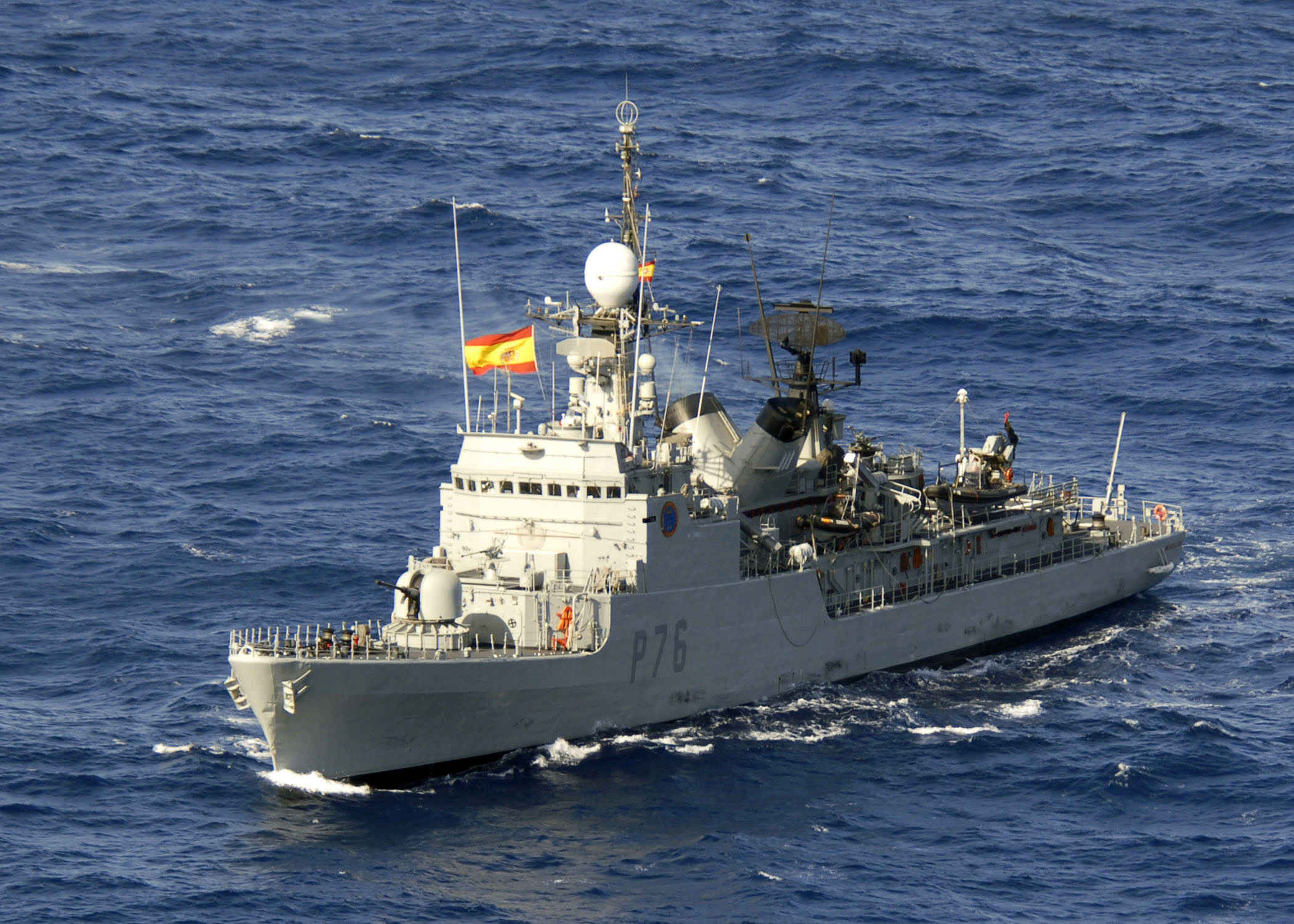 The Spanish corvette SPS Infanta Elena (P 76) transits the Mediterranean Sea during Phoenix Express (PE 08). PE-08 is the third annual exercise in a long-term effort to improve regional cooperation and maritime security. The principal aim is to increase interoperability by developing individual and collective maritime proficiencies of participating nations as well as promoting friendship, mutual understanding and cooperation. U.S. Navy photo by Mass Communications Specialist 1st Class James C. Davis (Released)